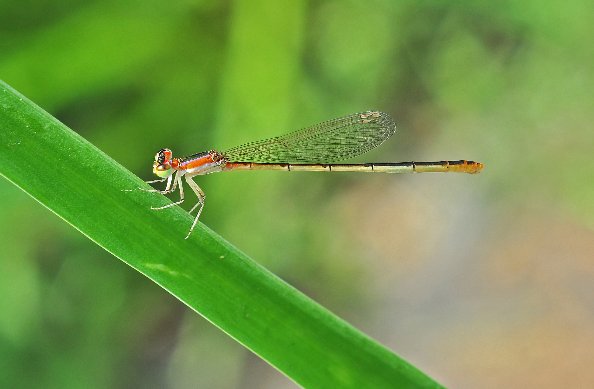 Pigmy Dartlet (Agriocnemis pygmaea) female (red form), a very small (less than 20mm long, 1-2mm thick) damselfly. The head, thorax and abdomen are dark brick red in color. Thorax has a broad, dorsal black band. Common in marshes, ponds, and sea shore. Darts among vegetation and flies very close to the ground. Distributed throughout the Oriental, Australian regions and Pacific islands. Taken at Burdwan, West Bengal, India.